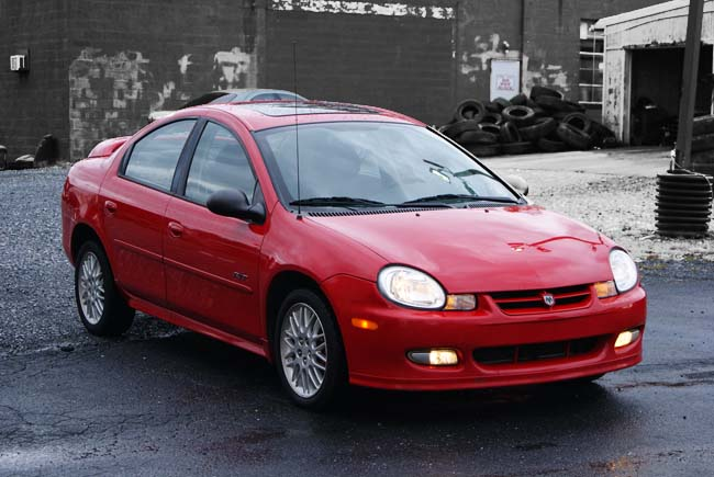 2002 Dodge Neon R/T